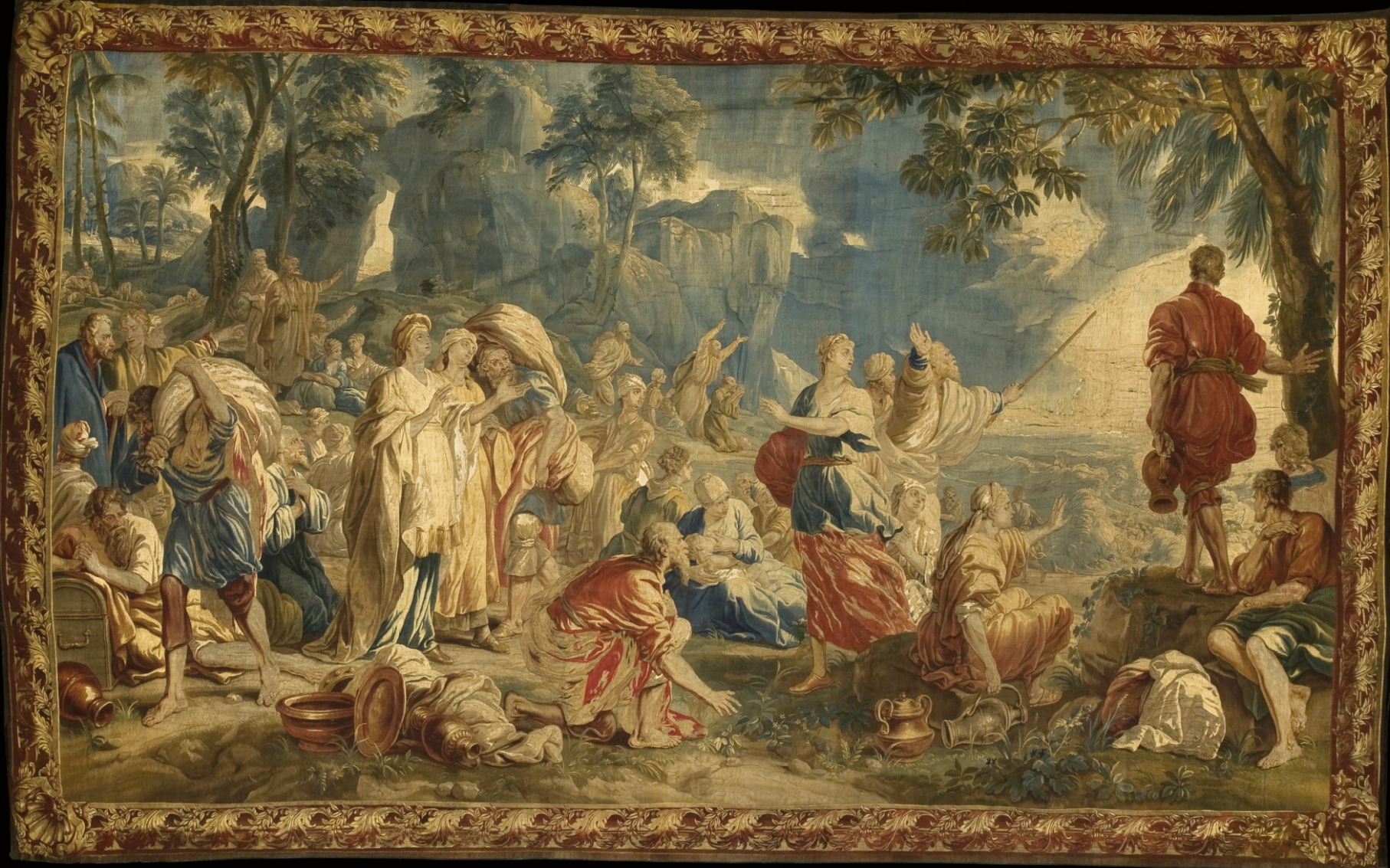 Crossing of Red Sea